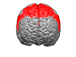 Brodmann areas 6 BA6 is in the posterior part of the frontal lobe. This is a front view, looking down on the brain The brain's surface is extracted from structural MRI data (Wellcome Dept. Imaging Neuroscience, UCL, UK). The Brodmann Area data is based on information from the online Talairach demon (an electronic version of Talairach and Tournoux, 1988). These images were created using Blender and Matlab. reference:Talairach, J., and Tournoux, P. Co-Planar Stereotactic Atlas of the Human Brain., New York: Thieme, 1988.